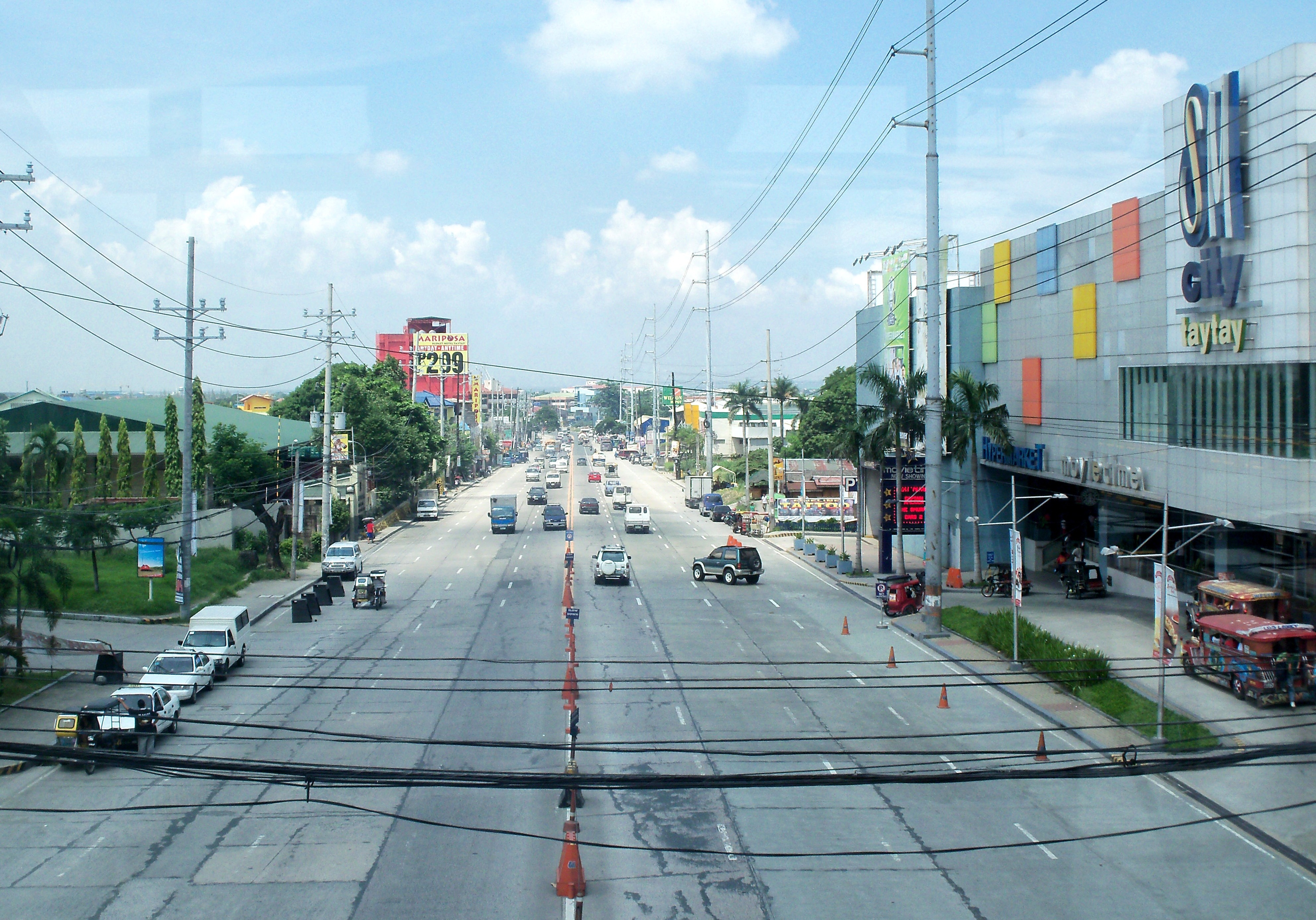 SM City Taytay